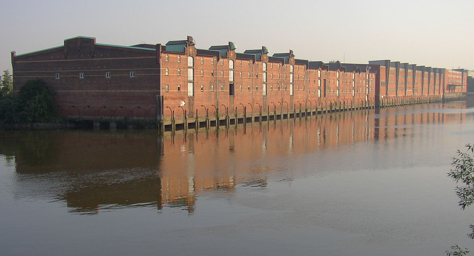 Storehouse in Hamburg-Kleiner Grasbrook, Germany